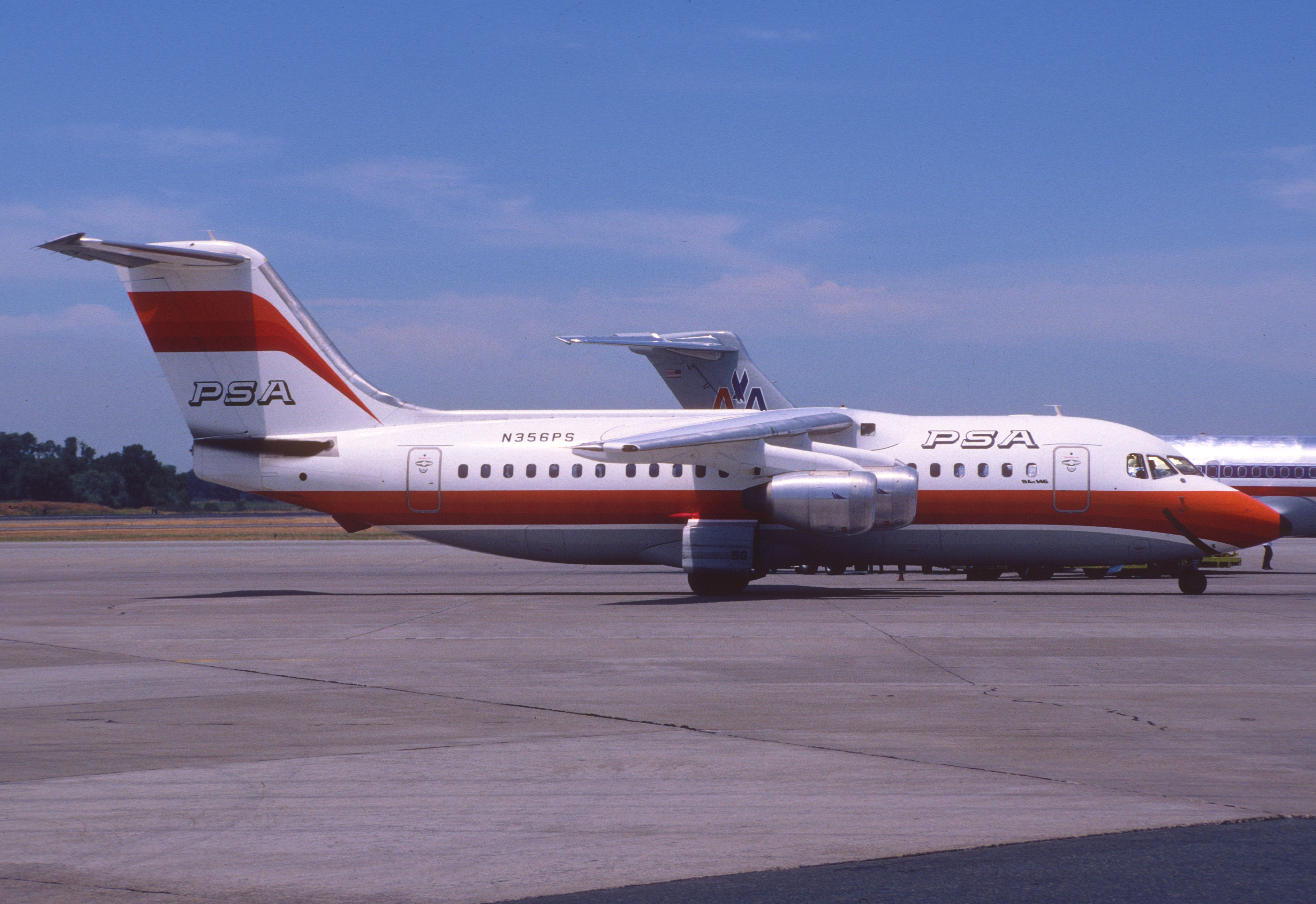 PSA BAe 146-200; N356PS, July 1986/ CBG